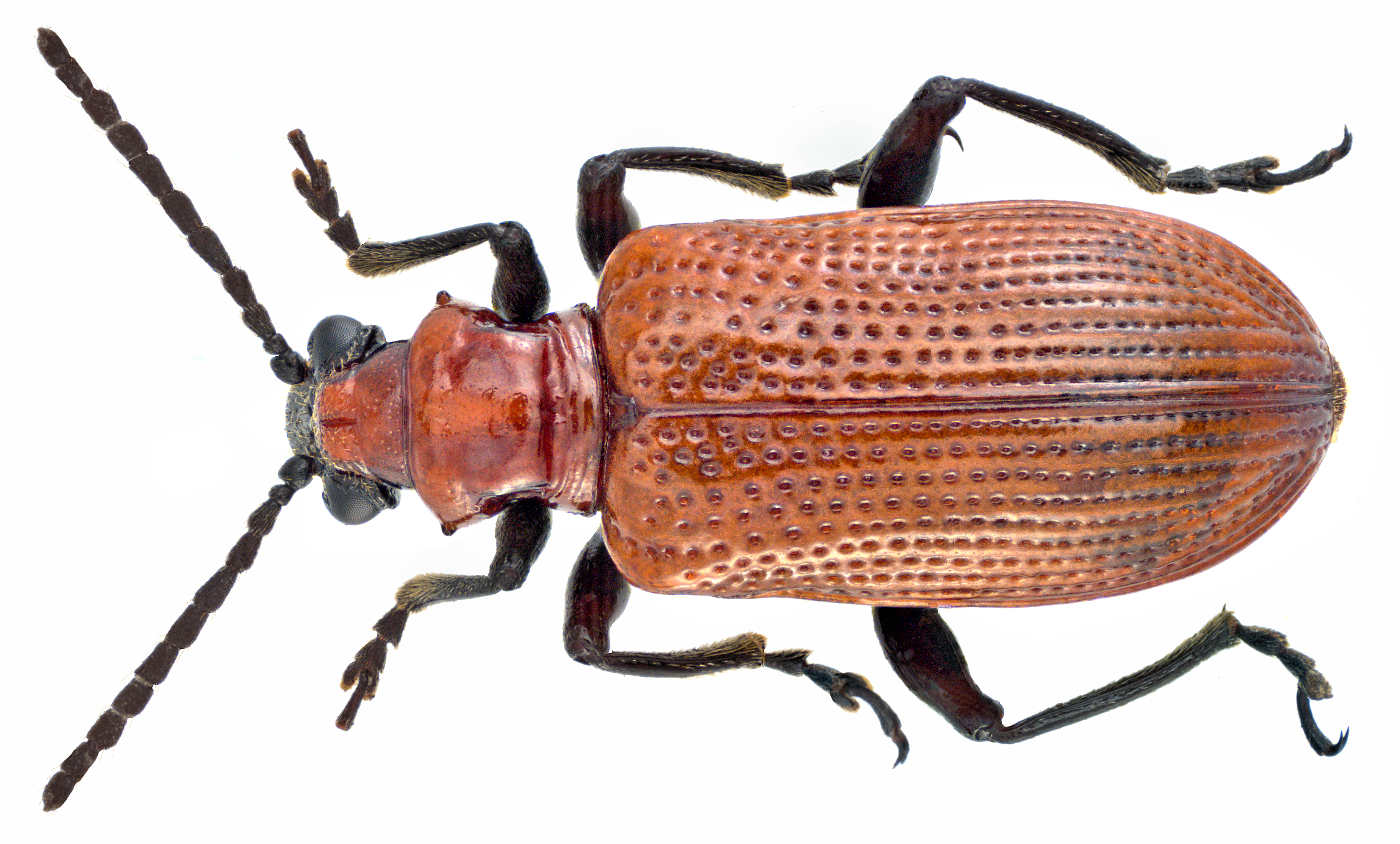 Family: Chrysomelidae Size: 10,3 mm Location: Senegal, M`Bour, 14 km south, environment Club Aldiana leg. U.Schmidt, 8.-20.X.1992; det. L.Medvedev, 2012 Photo: U.Schmidt, 2014